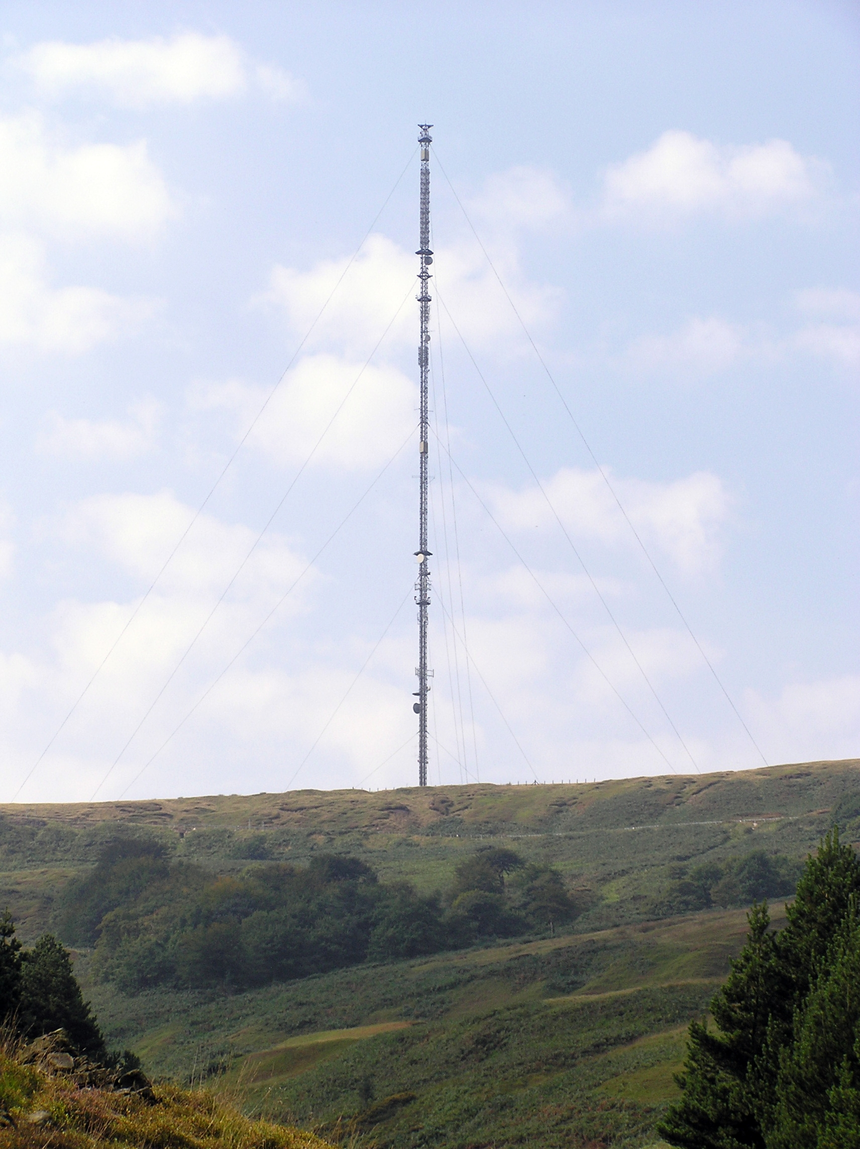 View of Holme Moss Radio Transmission Tower, from Kiln Bent Road.